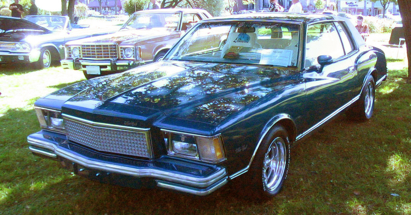 1978 Chevrolet Monte Carlo photographed in Salaberry-De-Valleyfield, Quebec, Canada at Auto antique Salaberry-De-Valleyfield 2011.